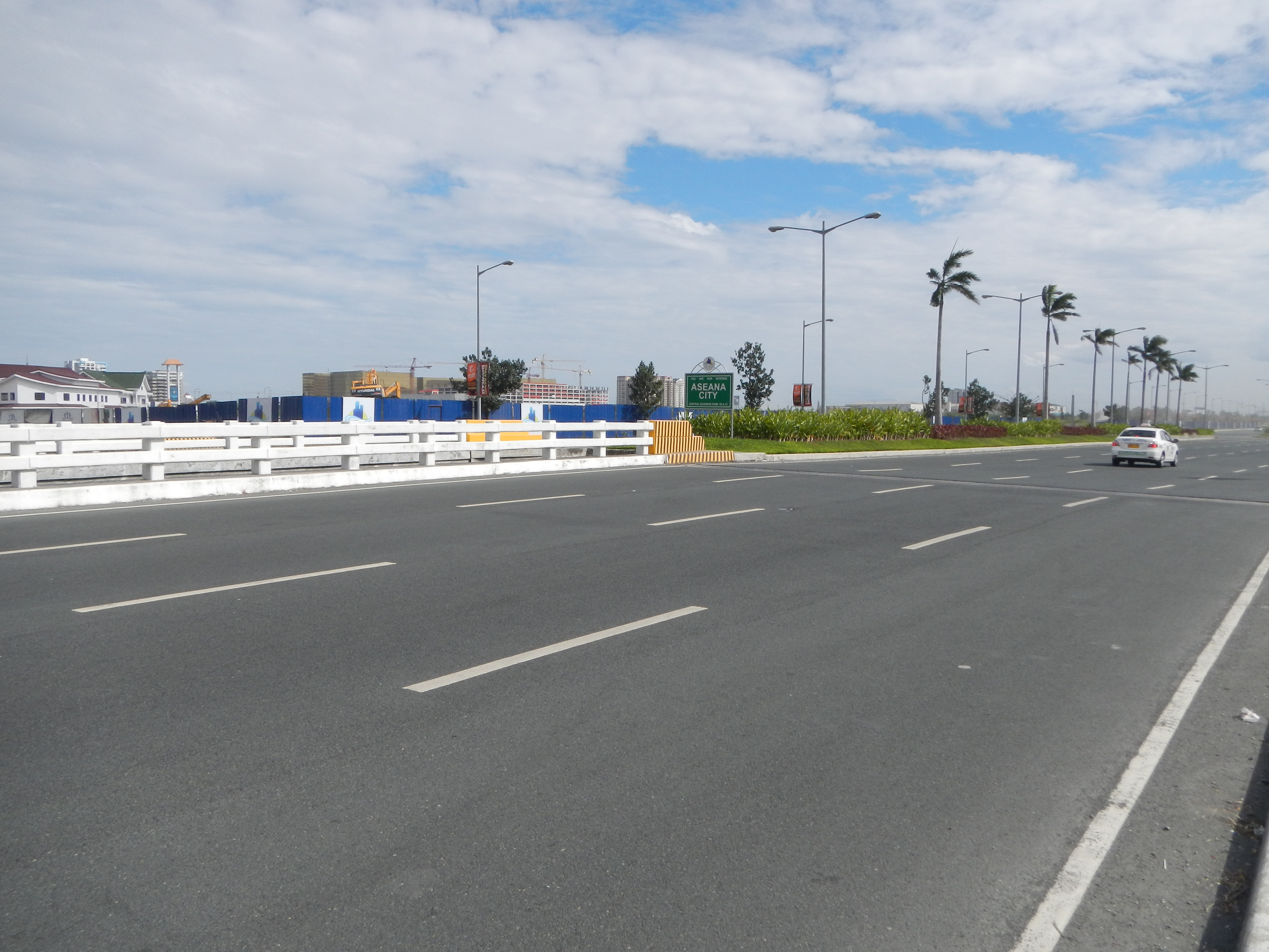 Upload Wizard photos of the - Redemptorist Bridge City (Bay City, Metro Manila) , Philippine Reclamation Authority 57.5 meter bridge connecting Central Business Park I Island A and Central Business Park I Islands B and C - gateway to - Aseana City (Parañaque City) - Aseana Avenue [1] Coordinates: 14°31'37"N 120°59'16"E [2] 2nd Floor, Aseana Powerstation, Bradco Avenue cor. President Diosdado Macapagal Blvd. Aseana City, Parañaque [3] - in Bay City, Metro Manila [4] the reclamation area[5] located west of Roxas Boulevard on Manila Bay in Metro Manila, the Philippines asplit between the cities of Pasay [6] on the north side and Parañaque[7] on the south side beside the carpark ofSM Mall of Asia[8] (the fourth largest shopping mall in the world), and is considered an important part of the Mall of Asia Complex (a 60-hectare business and leisure park) owned by the SM Group of SM Prime Holdings and Mall of Asia Arena[9].